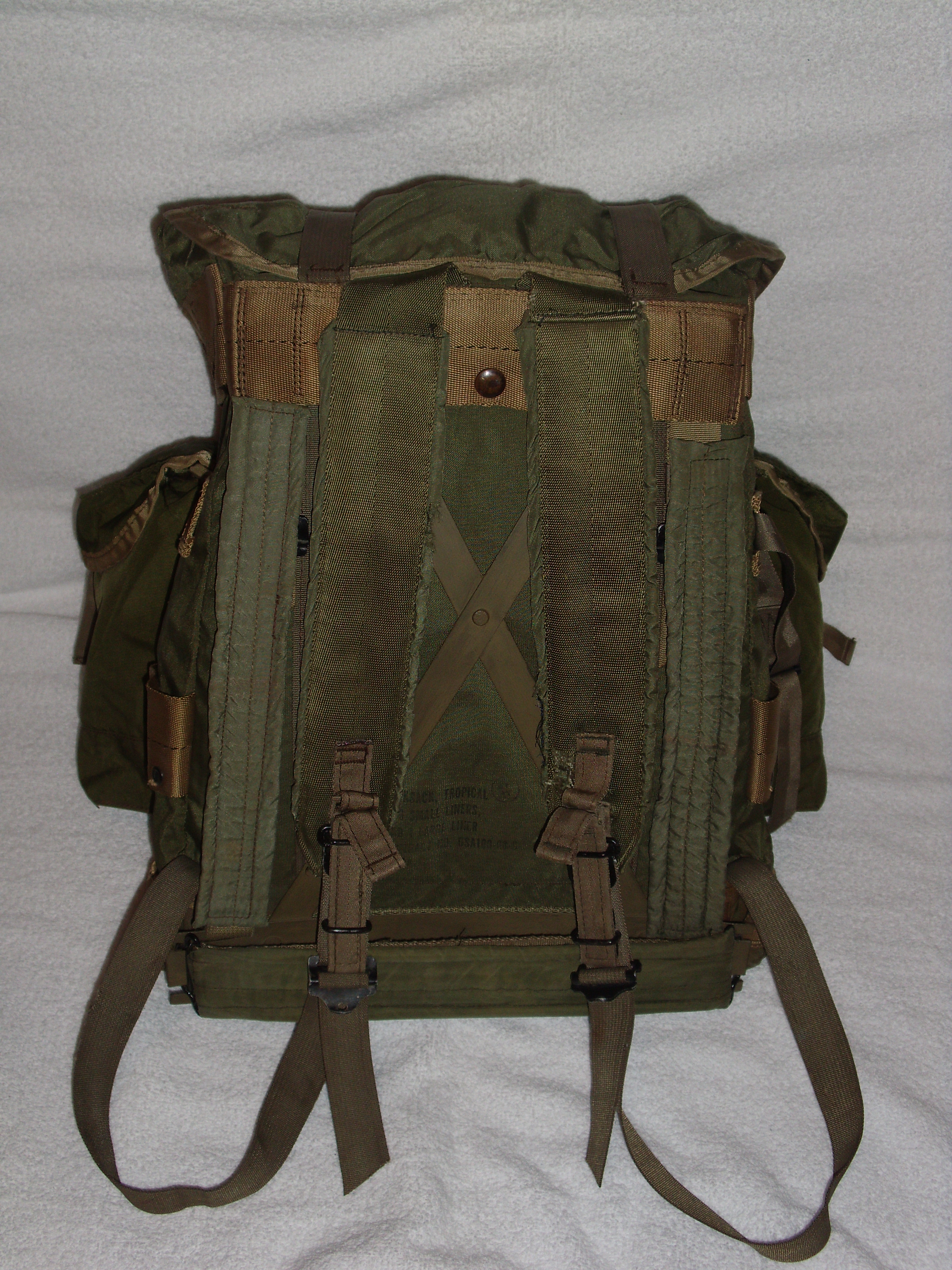 Tropical Rucksack Back View